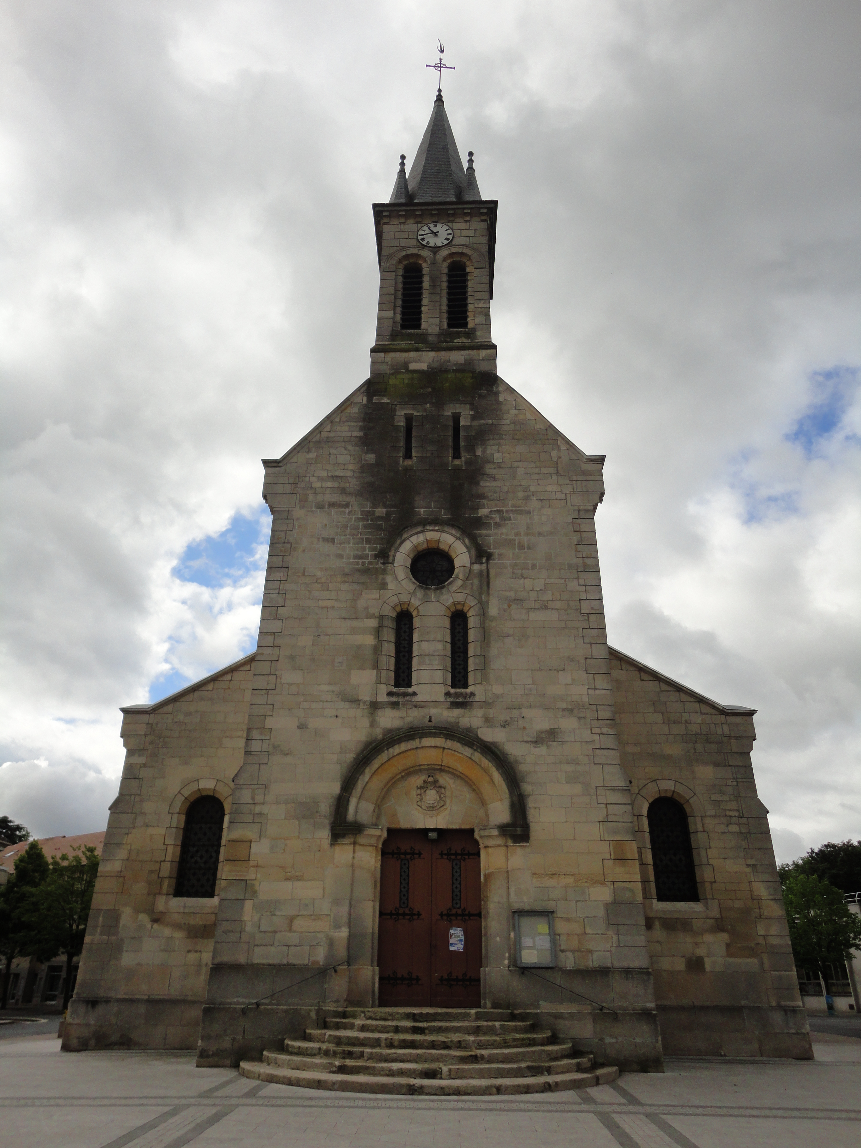 Saint-Barthélémy church of Torcy buit in 1863